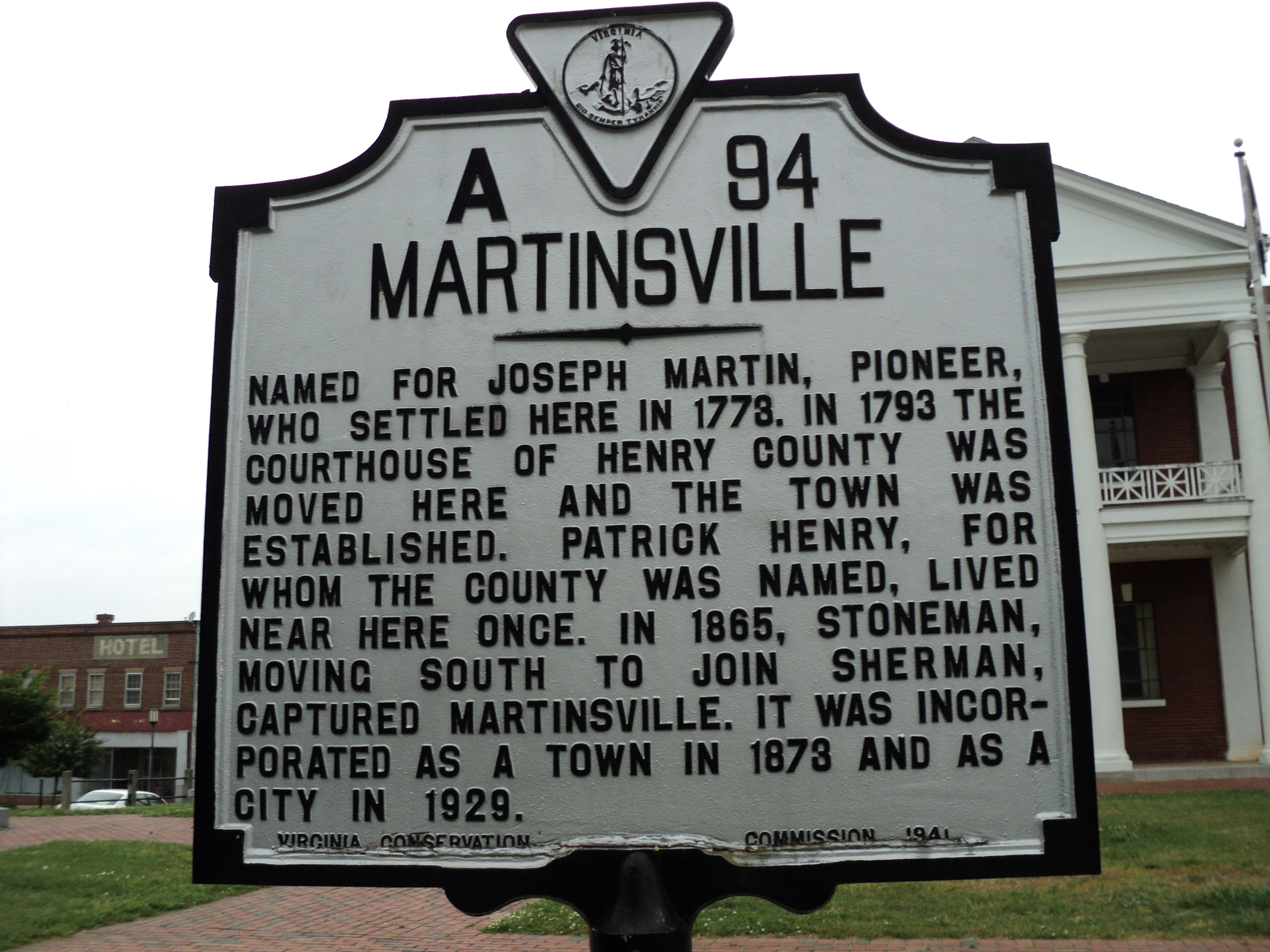 Historic marker for the city of Martinsville, Virginia, which is located on the courthouse square downtown.